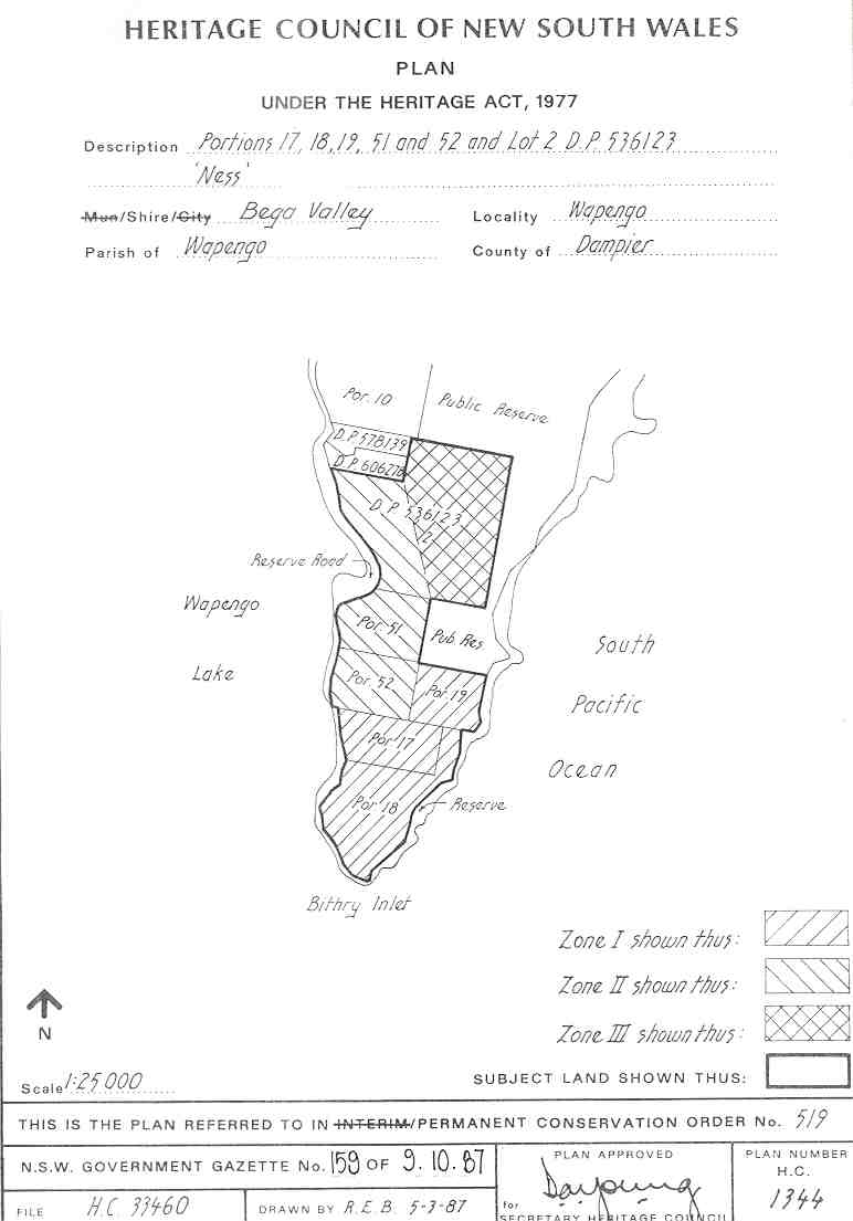 Ness, Wapengo: PCO Plan Number 519